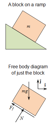 Block on a ramp (top) and corresponding free body diagram of just the block (bottom). Free body diagram of block on ramp.